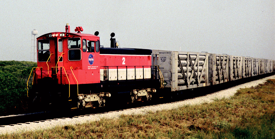 NASA Railroad locomotive 2 in the old paint scheme, pulling gaseous helium freight cars.